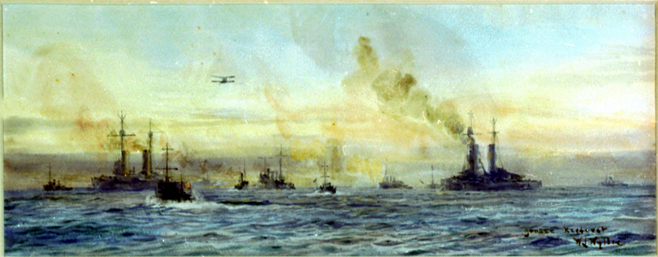 The 'Grosser Kurfürst' and other units of the High Seas Fleet sailing to surrender, 21 November 1918 Inscribed 'Grosse Kerfurst' (sic) and signed by the artist, lower right. The ship on the right is the German battleship 'Grosser Kurfürst', built at Hamburg, launched on 5 May 1913 and completed in September 1914. She surrendered as part of the German High Seas fleet in the Firth of Forth on 21 November 1918 and was transferred to Scapa Flow on the 26th. After being scuttled by her crew with the rest of the interned fleet on 21 June 1919, she was raised on 29 April 1938 and scrapped at Rosyth. The large ship on the left is one of the German 'Kaiser'-class battleships. The two three-funnelled ships in the centre are German cruisers - either the 'Karlsruhe', 'Emden', 'Nürnberg', 'Cöln' or 'Dresden'.